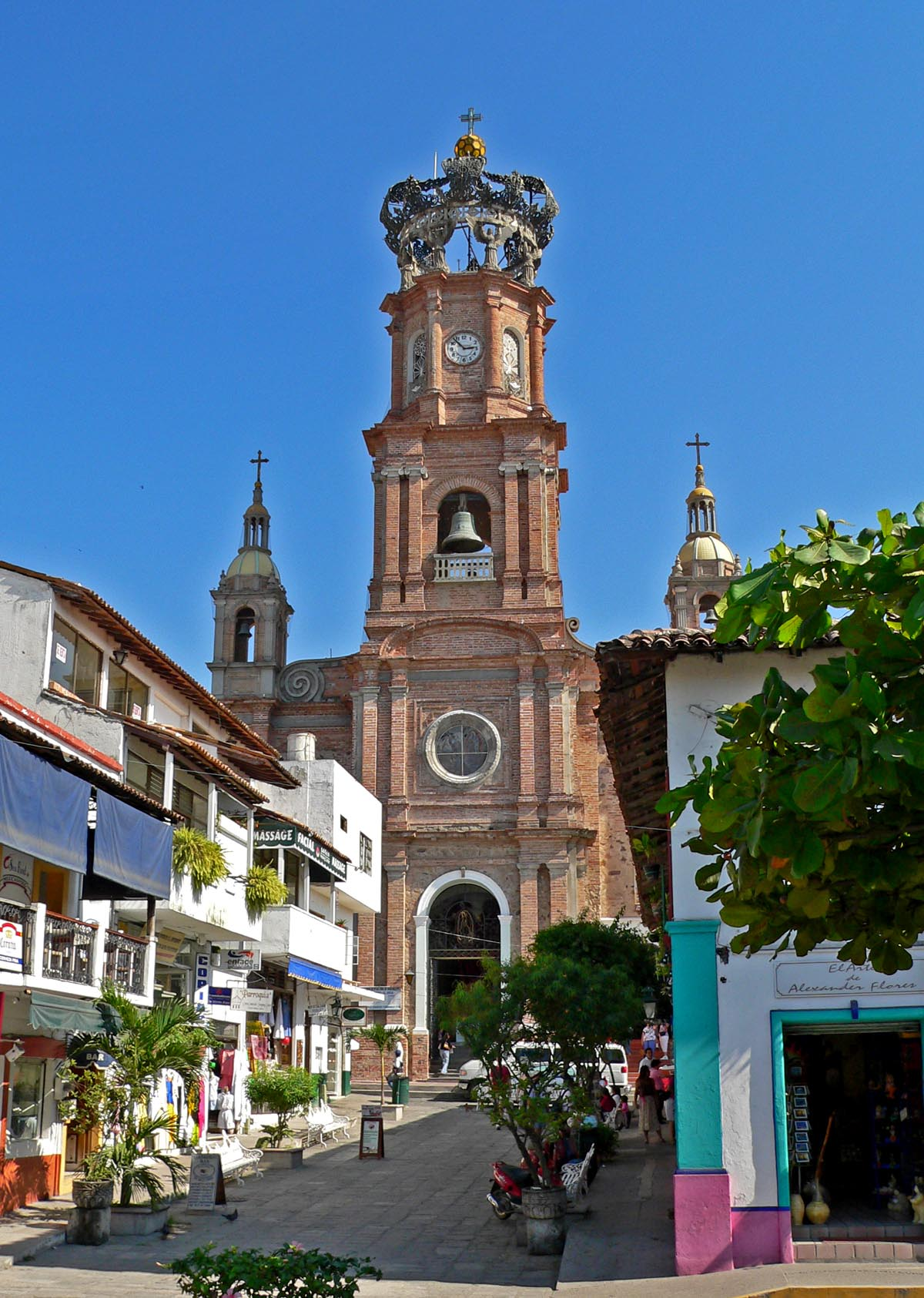 Photo of Puerto Vallarta cathedral, Jalisco, Mexico